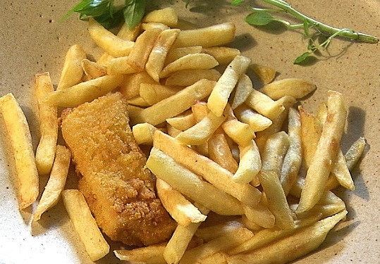 Fish and chips